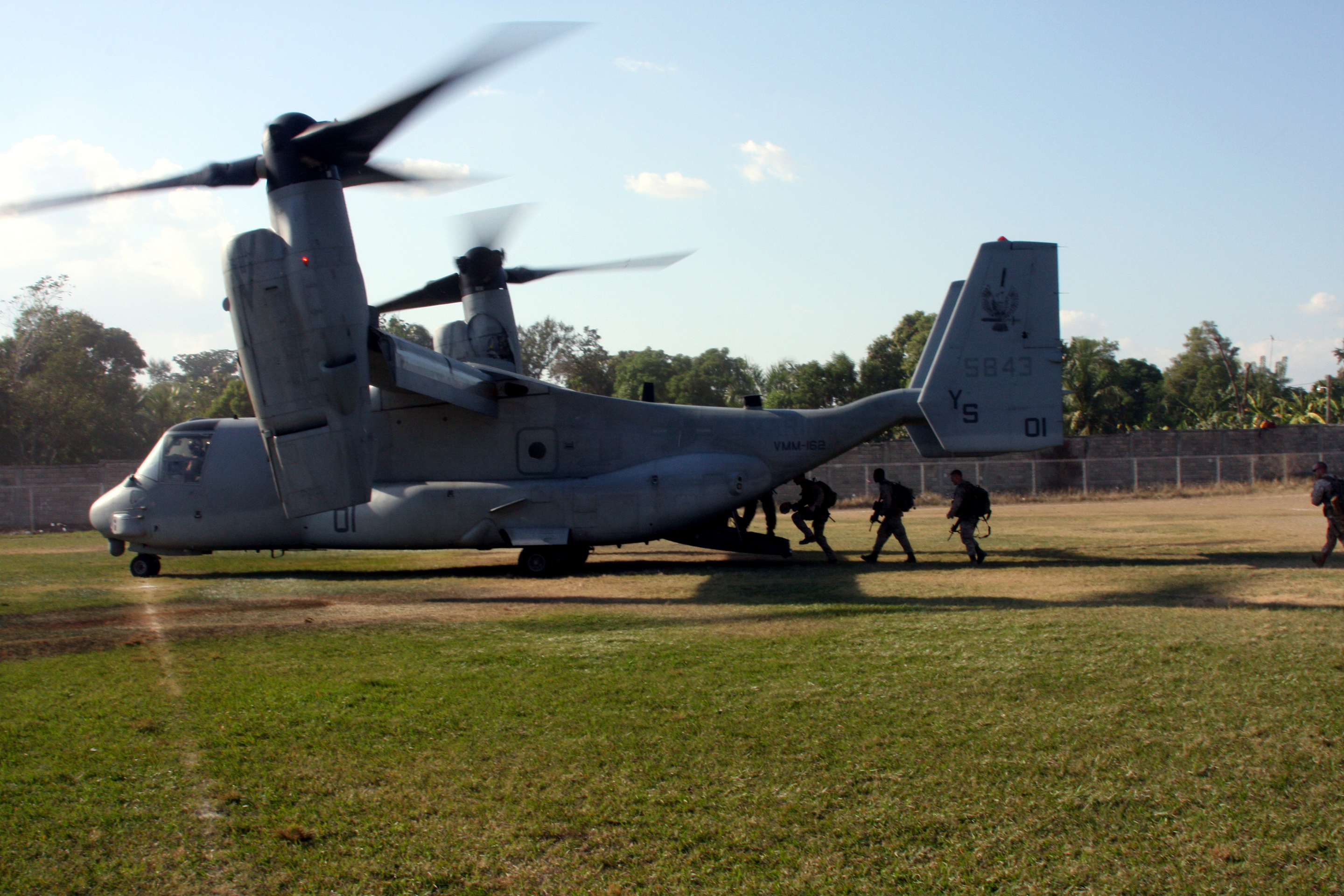 Marines board a MV-22 Osprey after completing a need-for-aid assessment in the town of Mirebalais, Haiti, today. The Osprey flew its first mission ever in support of a humanitarian relief mission. The Osprey allowed three different teams to insert to remote, inland locations in northern Haiti, a capability no other helicopter in the vicinity can provide. (Photo by Gunnery Sgt. Robert Piper)